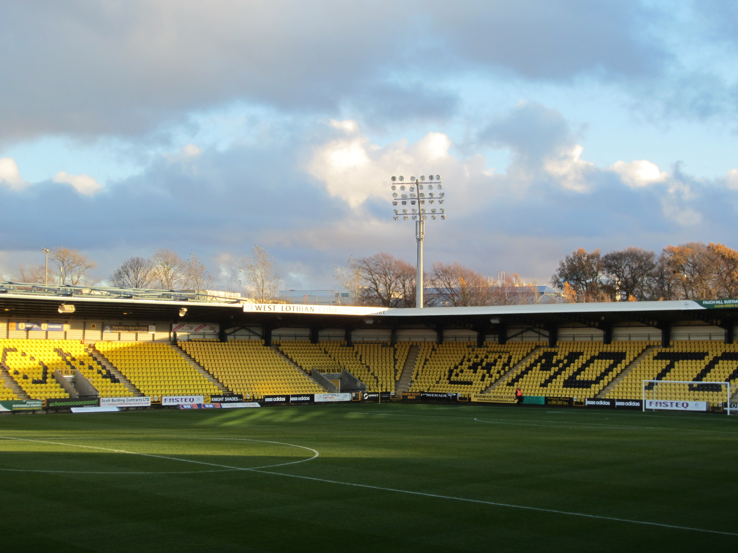 Almondvale Stadium on the day of a football match between Livingston F.C. and Falkirk F.C.